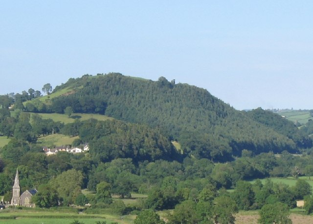 Merlin's Hill near Carmarthen. Rumours of Merlin persist about Carmarthen. Many believe the Welsh name of the town "Caer Myrddin" means the Fort of Merlin. In fact the name derives from Caer Moridunum - the fortress near the sea. However, this hill is called Merlin's Hill, and the map says there was a fort on it.